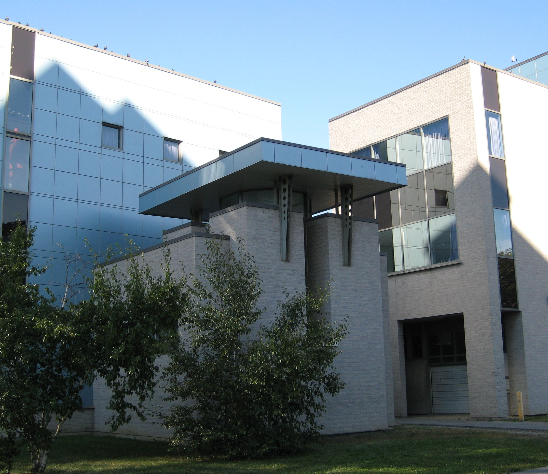 Archbishop Romero Catholic Secondary School